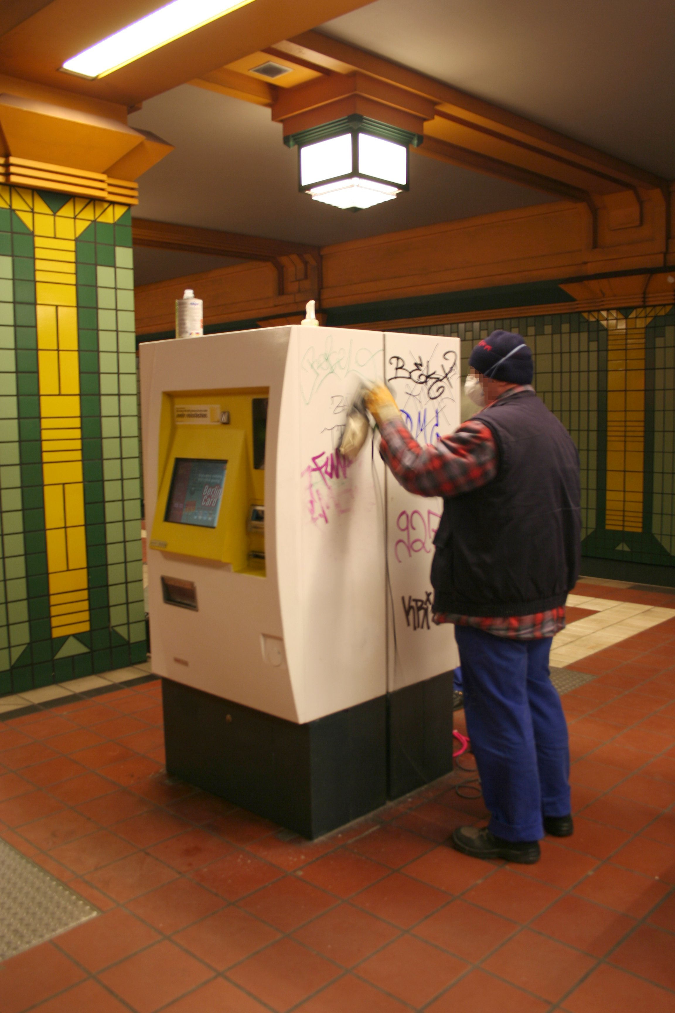 Graffiti removal with grinder in Berlin subway station Wittenau